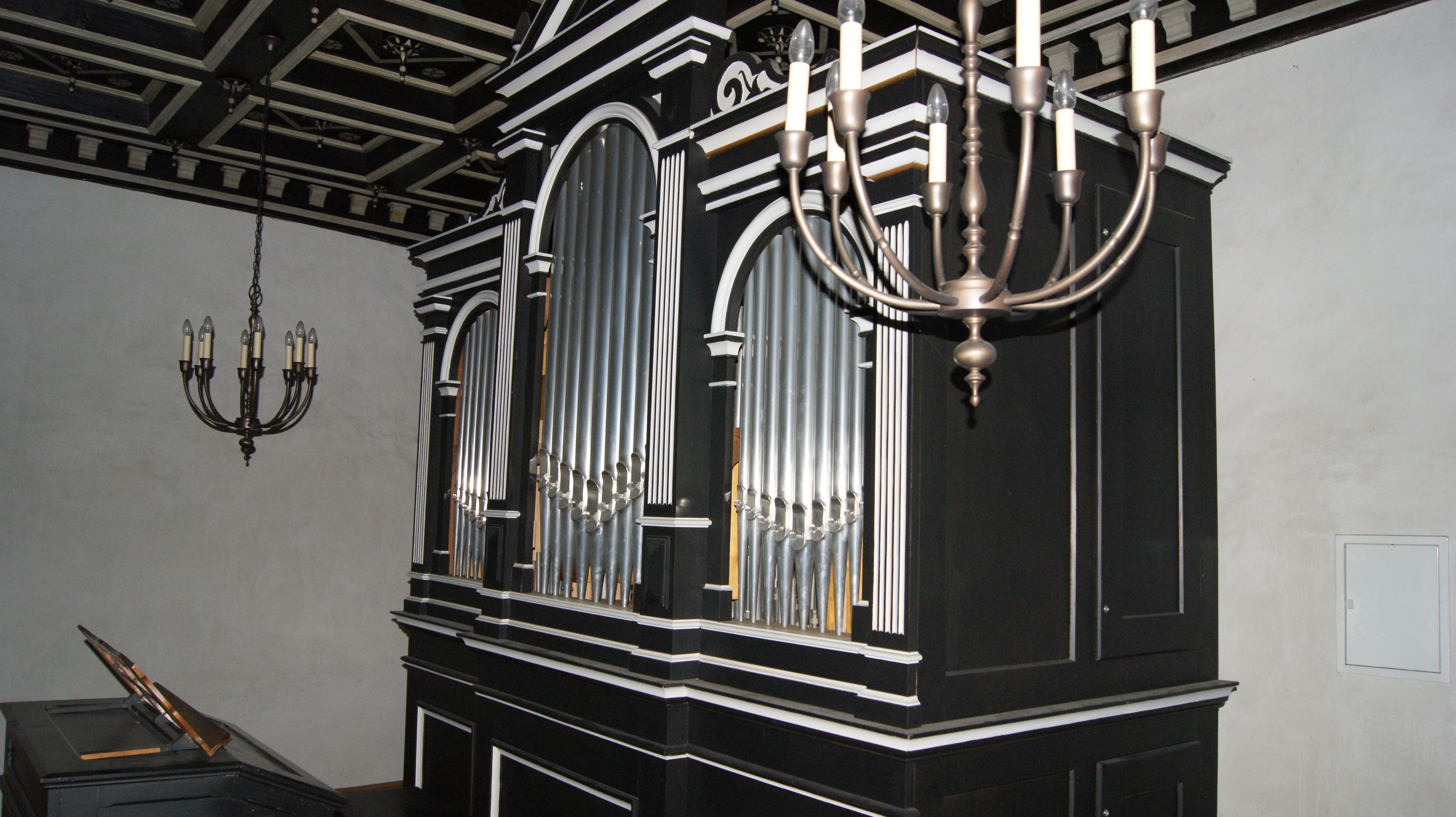 Chapel St. Sebastian and St. Antonius in Hohenems, Vorarlberg, Austria. Organ of the company Mayer in Feldkirch.